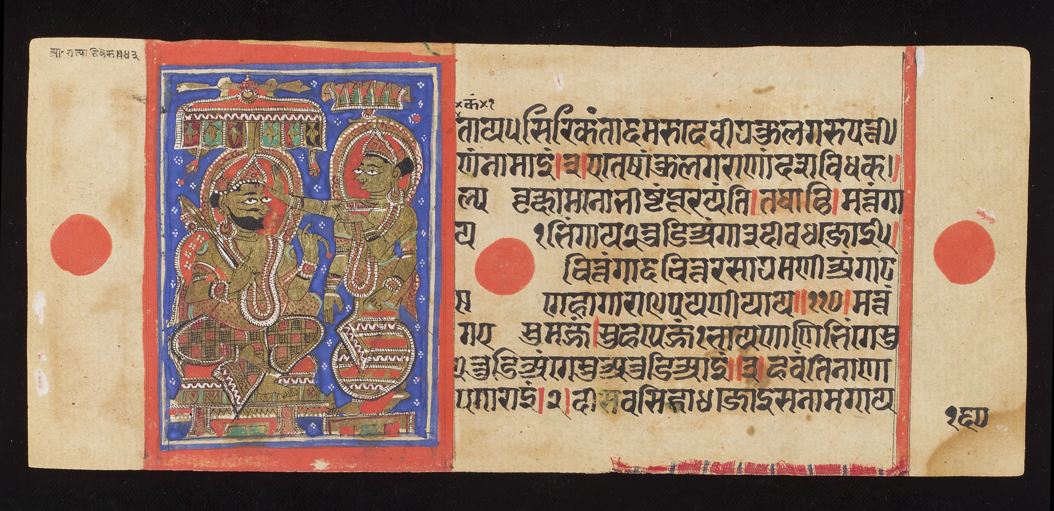 The Kalpasutra (the heroic deeds of the conquerors) a Prakrit Manuscript dated 1503. Minature Wellcome Images Keywords: Jainism; Religion; India; miniatures; ORIENTAL; Jinas